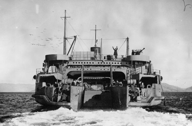 HMS Princess Iris Underway at sea. The photograph shows an LCM being hauled up the stern chute.